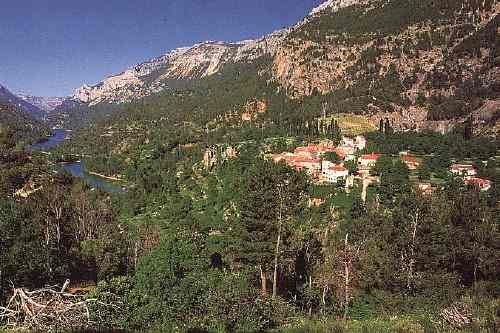 La Toba, in the municipality of Santiago-Pontones (Jaén)